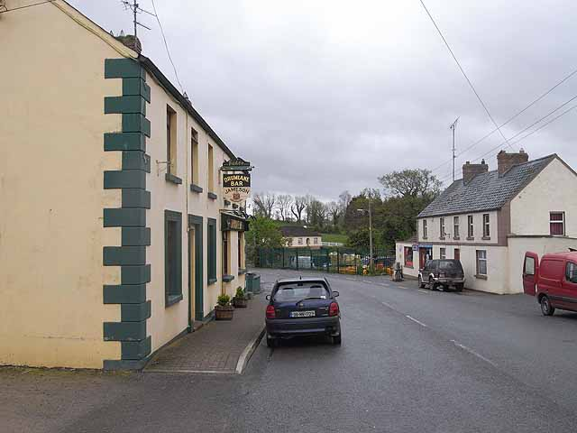 Village street, Milltown. Nucleated villages are few and far between in rural Ireland, but they all seem to support a pub and shop (unlike equivalent settlements in England).